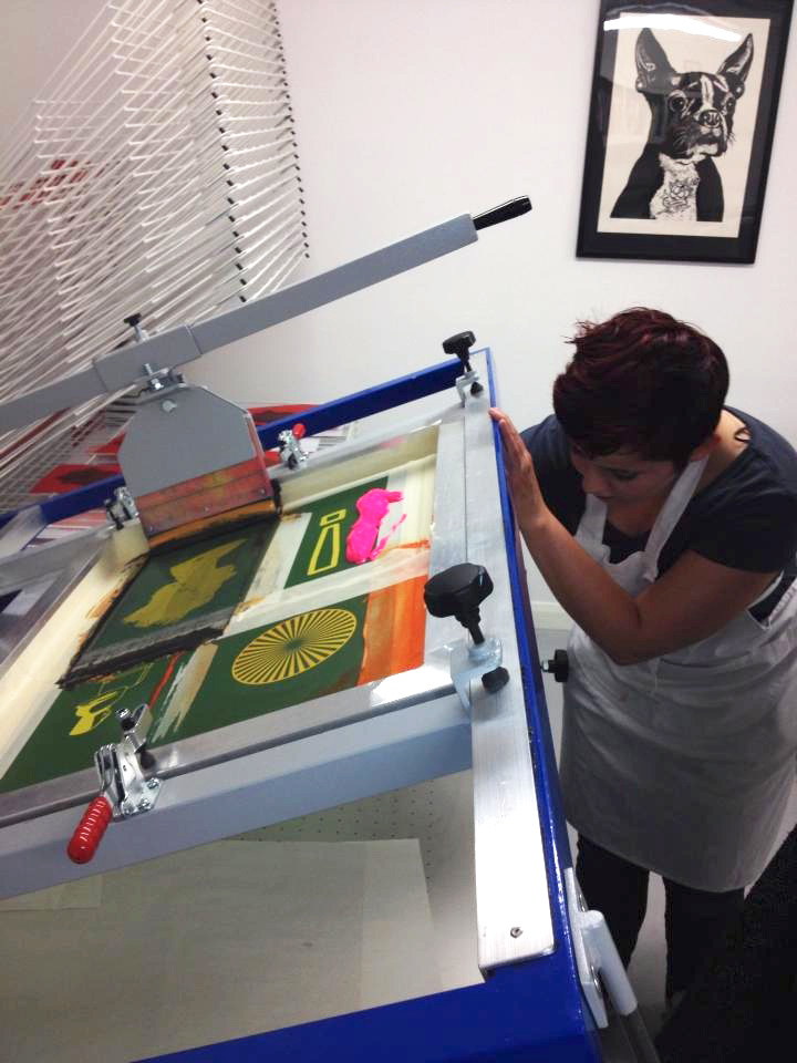 Screen Printing four layers on a hand bench at Squeegee & Ink studio